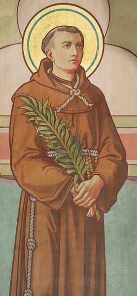 Godefroid Coart Painting in Maria van Jesse church, Delft.